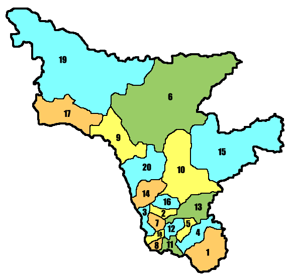 Map of areals of Amur oblast